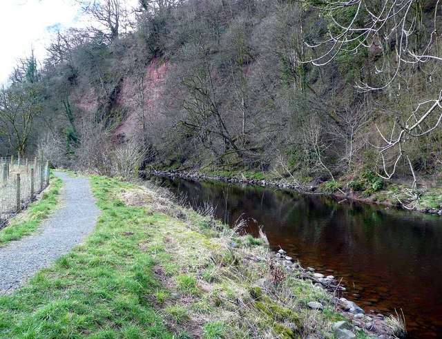 The River Ayr Way west of Catrine Progressing downstream towards the gorge, the first cliffs can be seen on the far side.